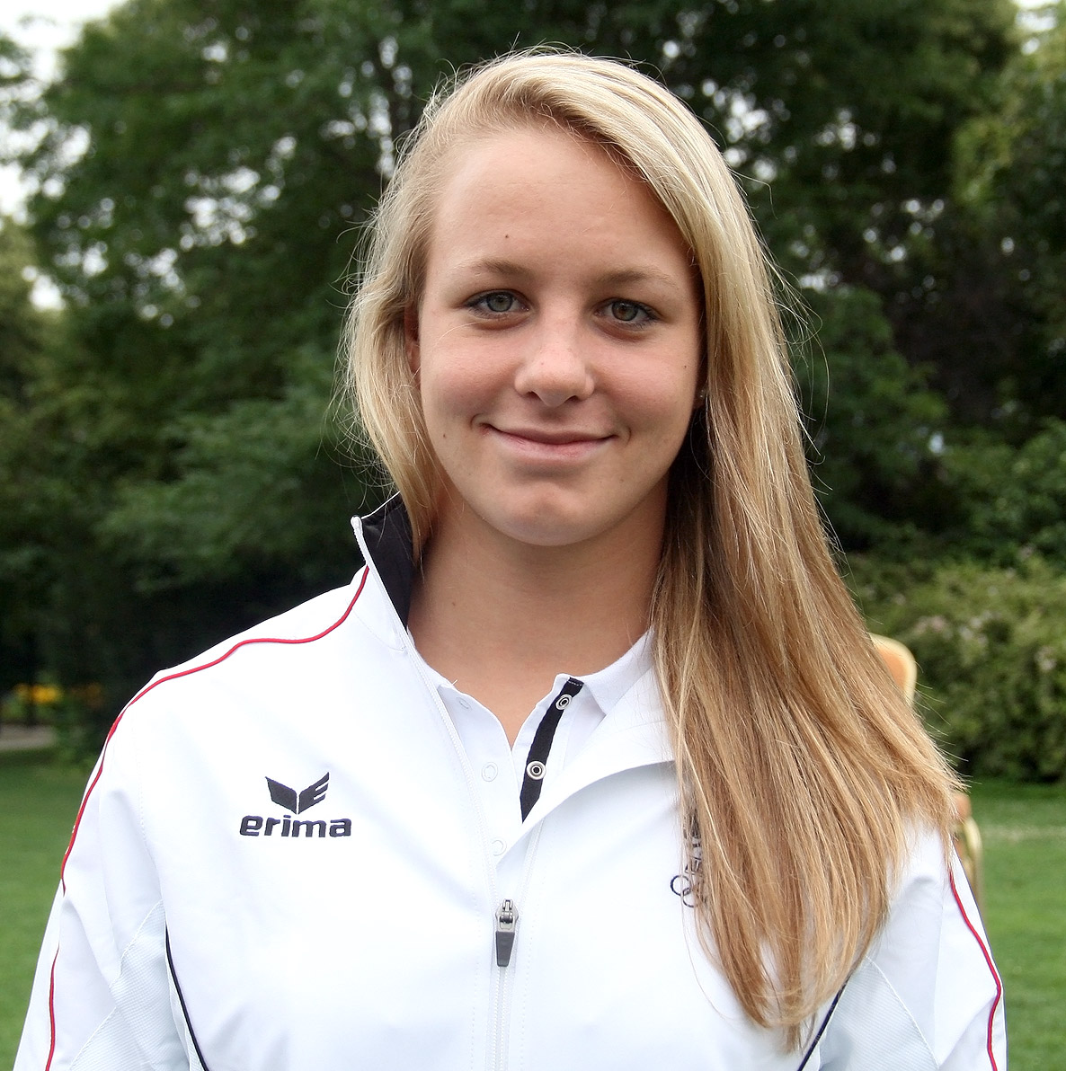 Swimmer Lisa Zaiser after the hand-out of the Austrian teams official attire for the 2012 Summer Olympics in London (Stadtpark, Vienna).